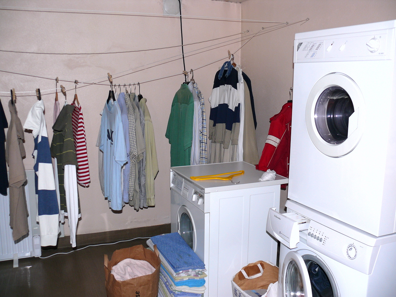 A laundry room. ("Tvättstuga" in swedish)